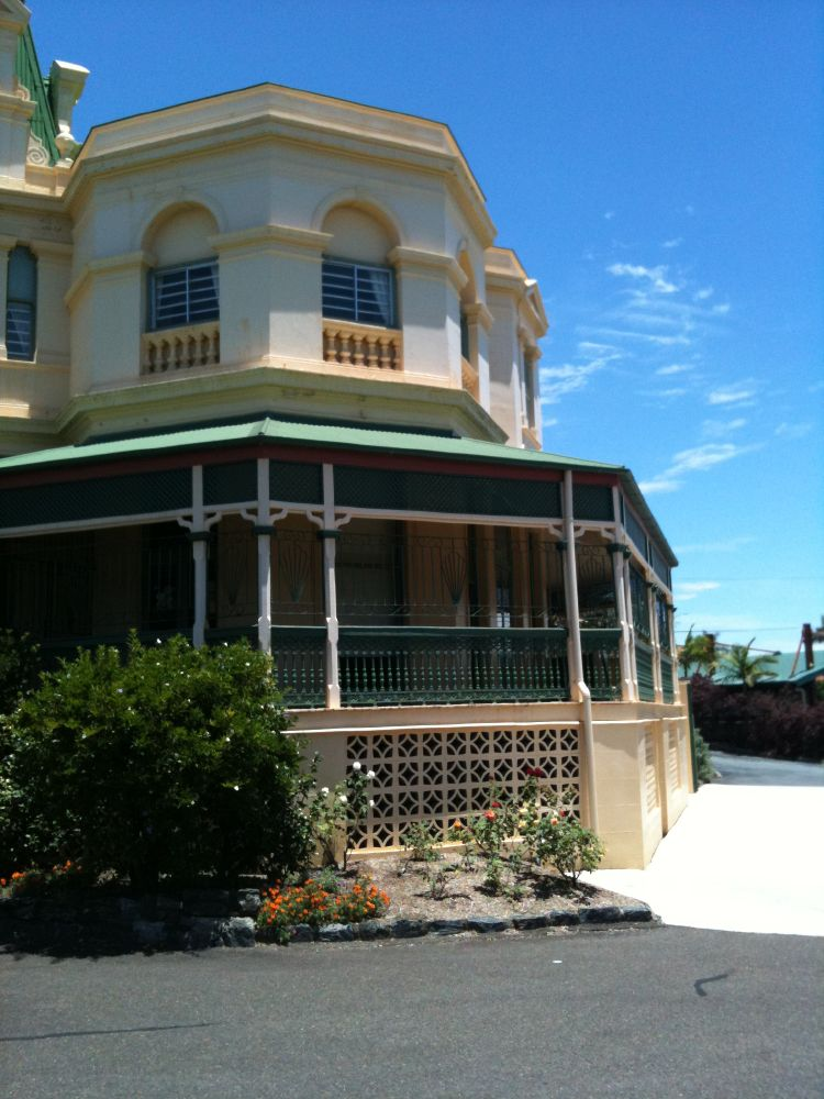 Stanley Hall (2012) - another view